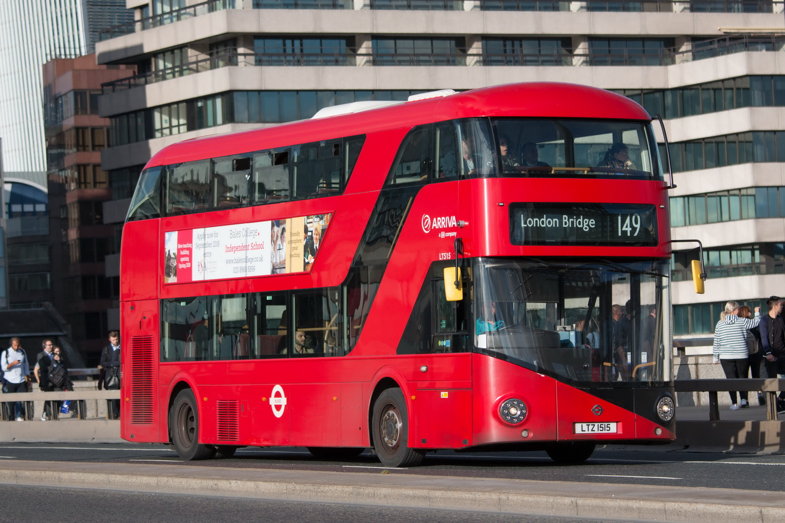 Arriva London New Routemaster on route 149 in 2017